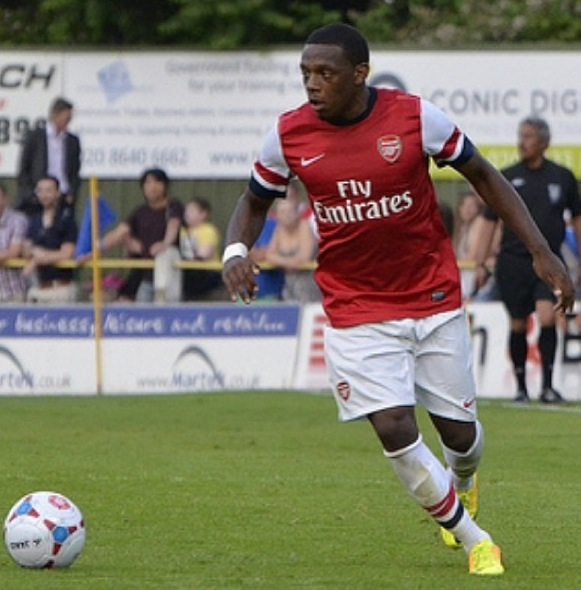 Jeffrey's return to the Gunners after his loan move